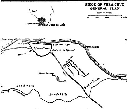 Siege of Vera Cruz